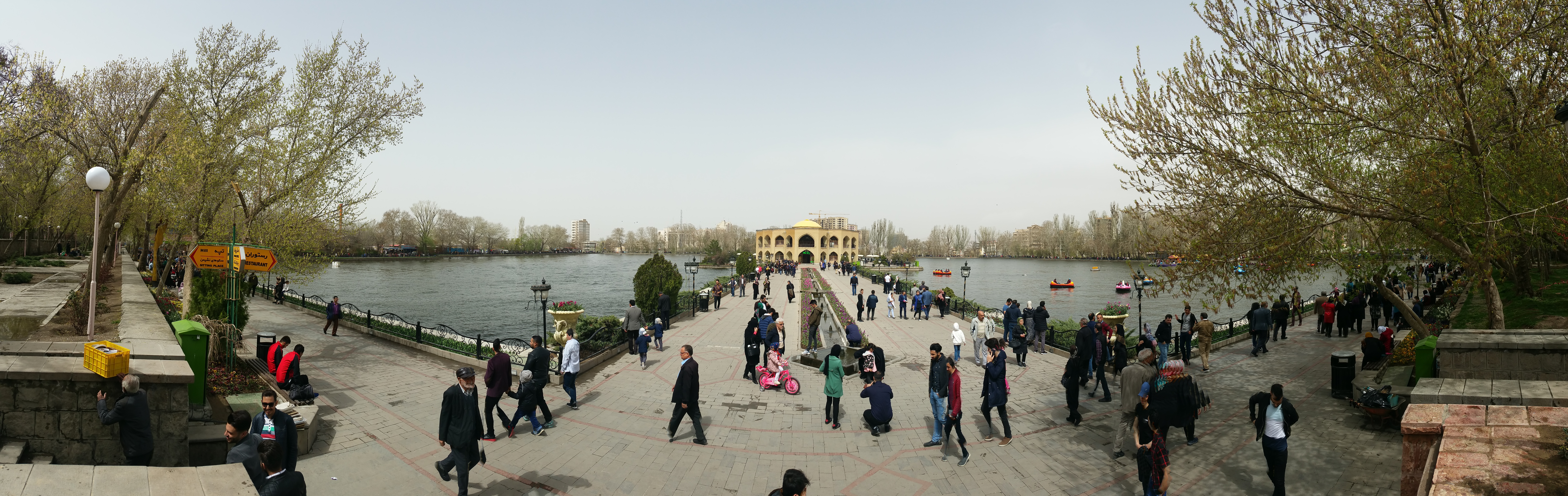 Panoramic ground view of Shah Goli from side walk